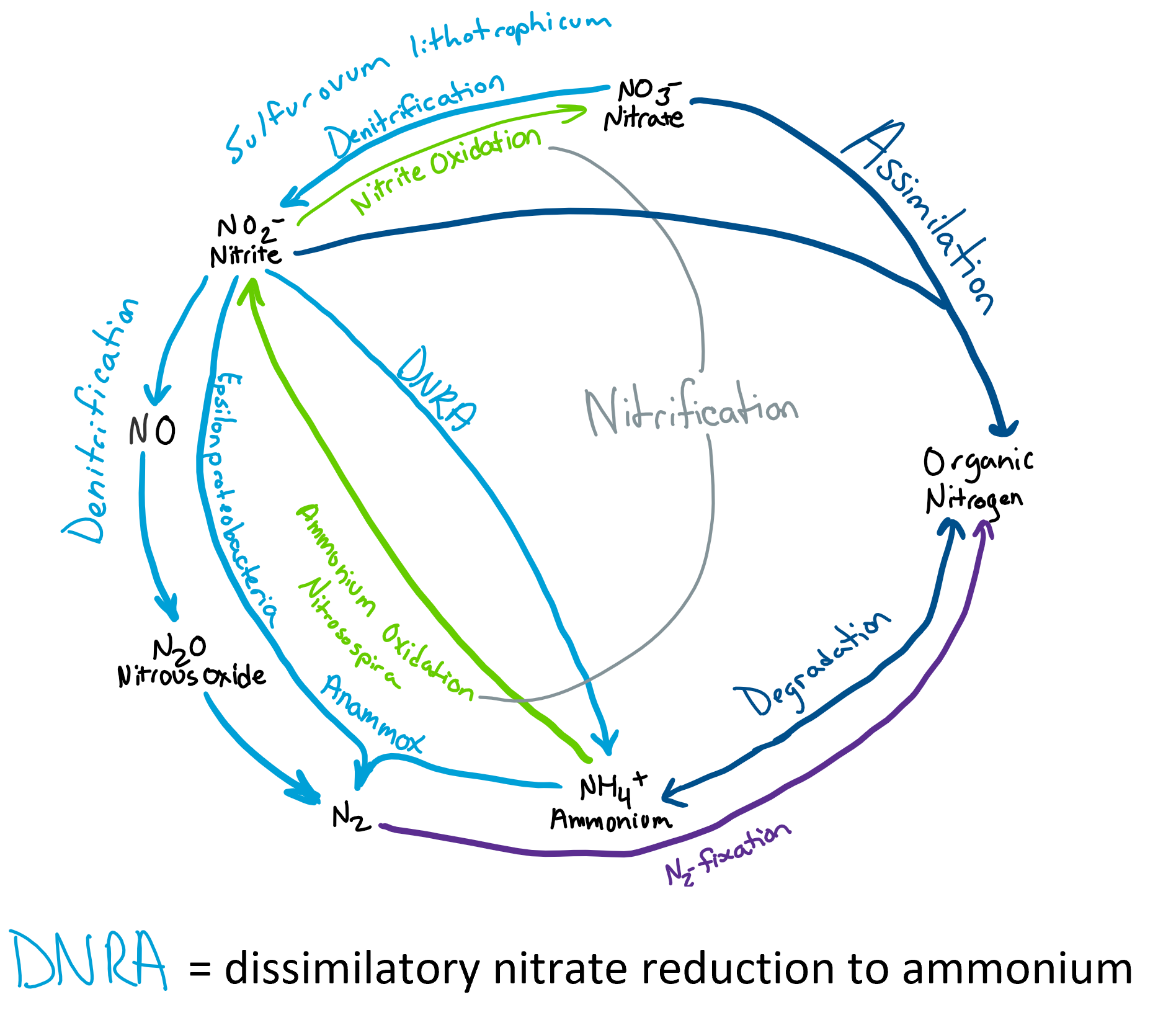 A hand drawn image of the nitrogen cycle pertaining to hydrothermal vent microbial communities; includes names of processes and phyla/genera